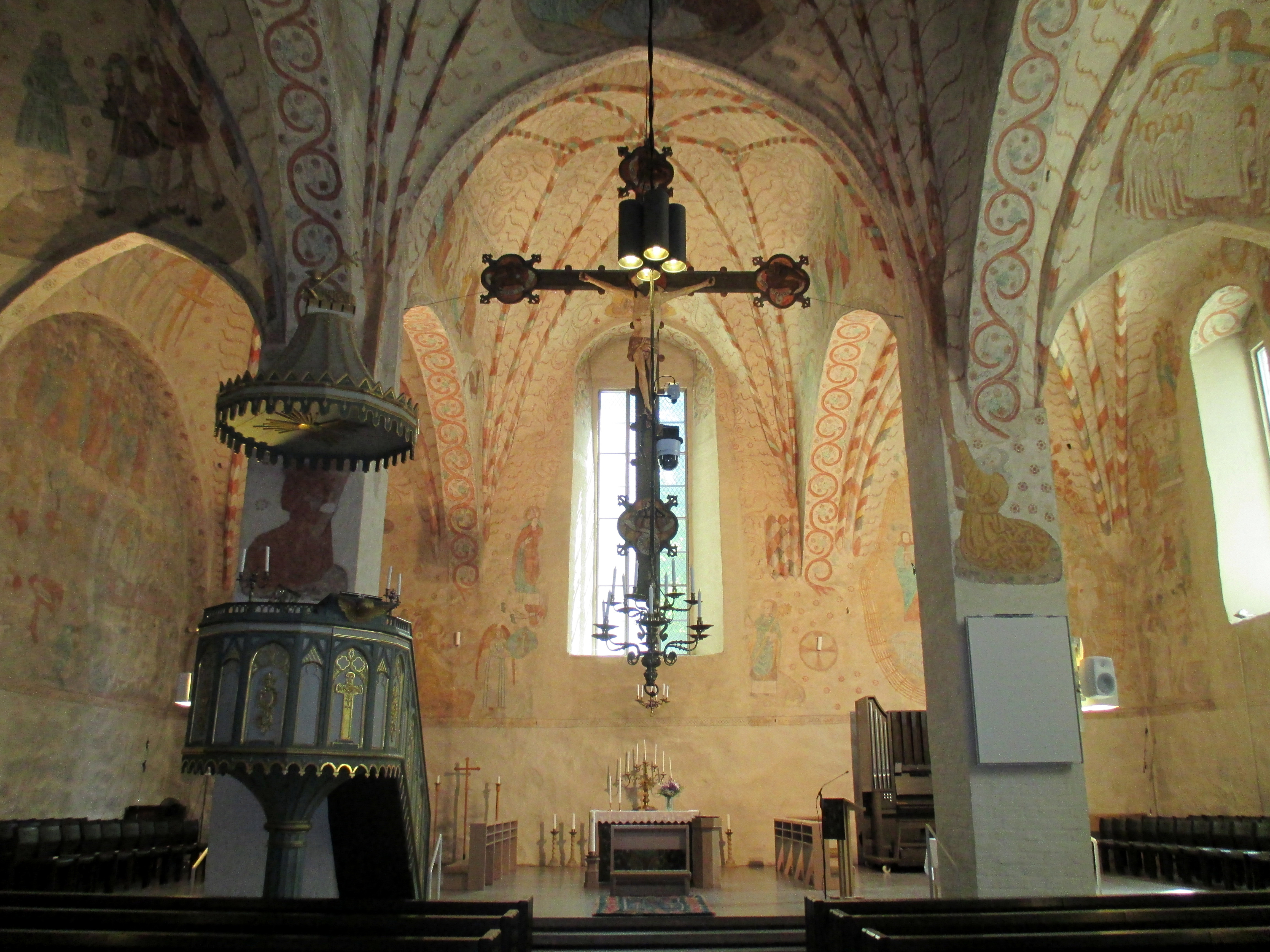 Saint Lawrence Church, Lohja, Finland. Interior.